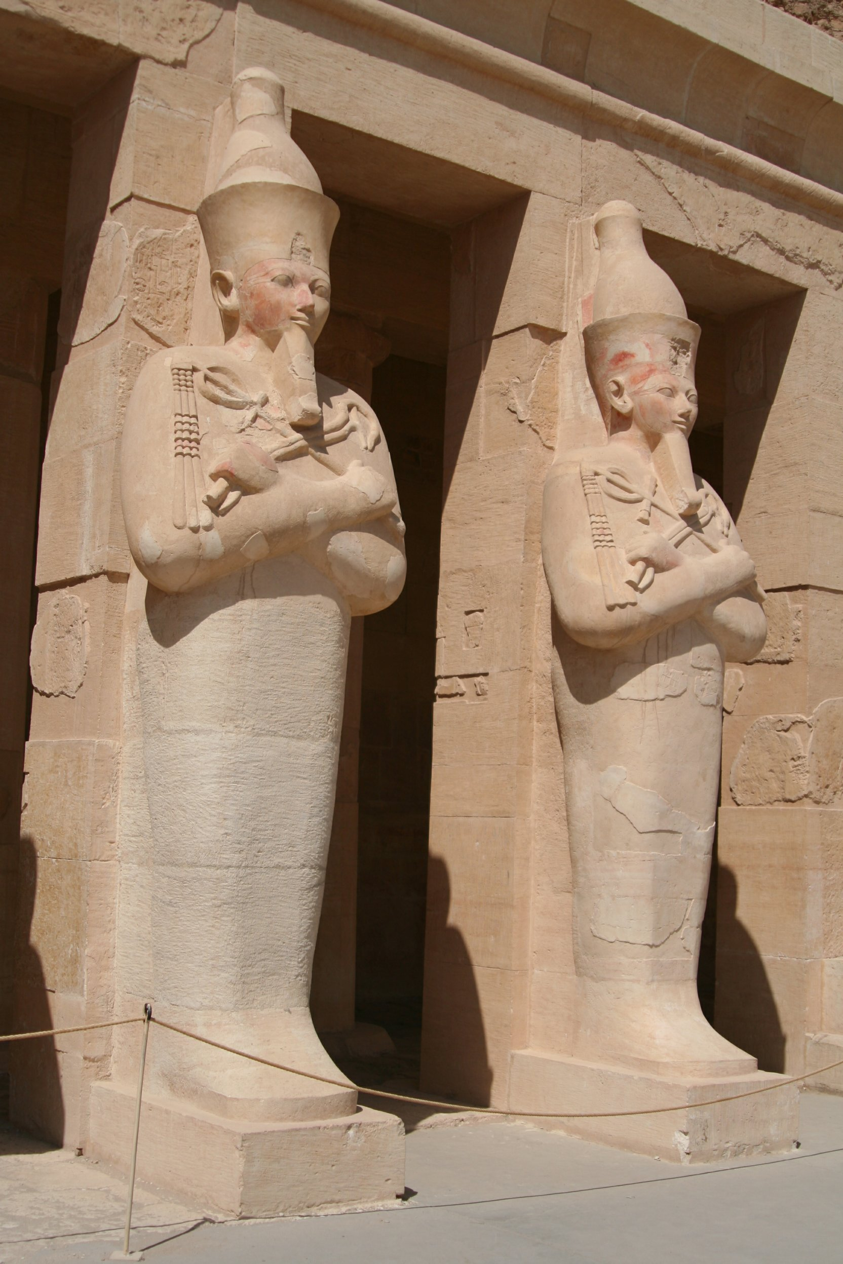 Osirian statue of Hatshepsut - Temple of Hatshepsut @ Luxor